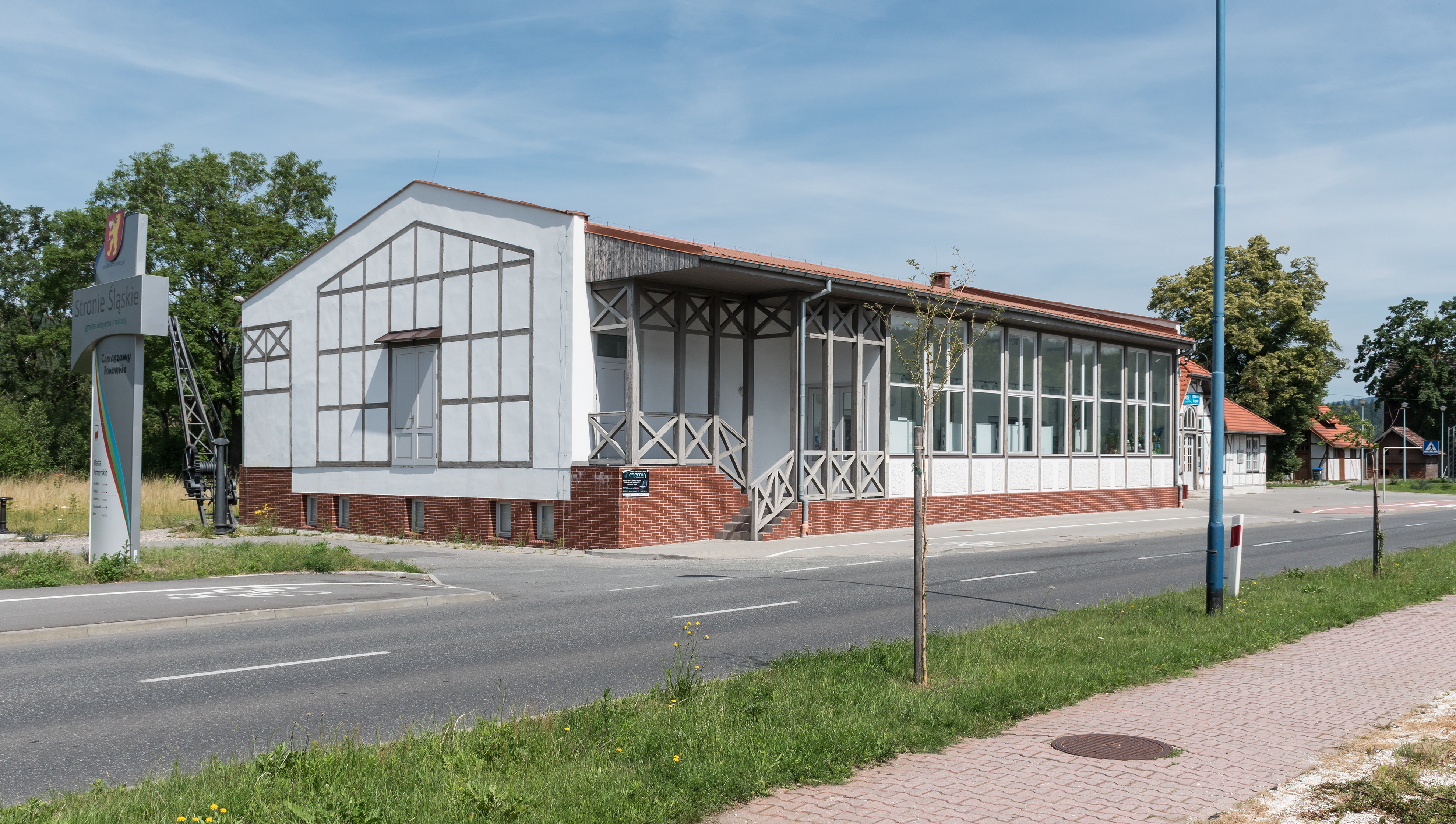 Station building in Stronie Śląskie